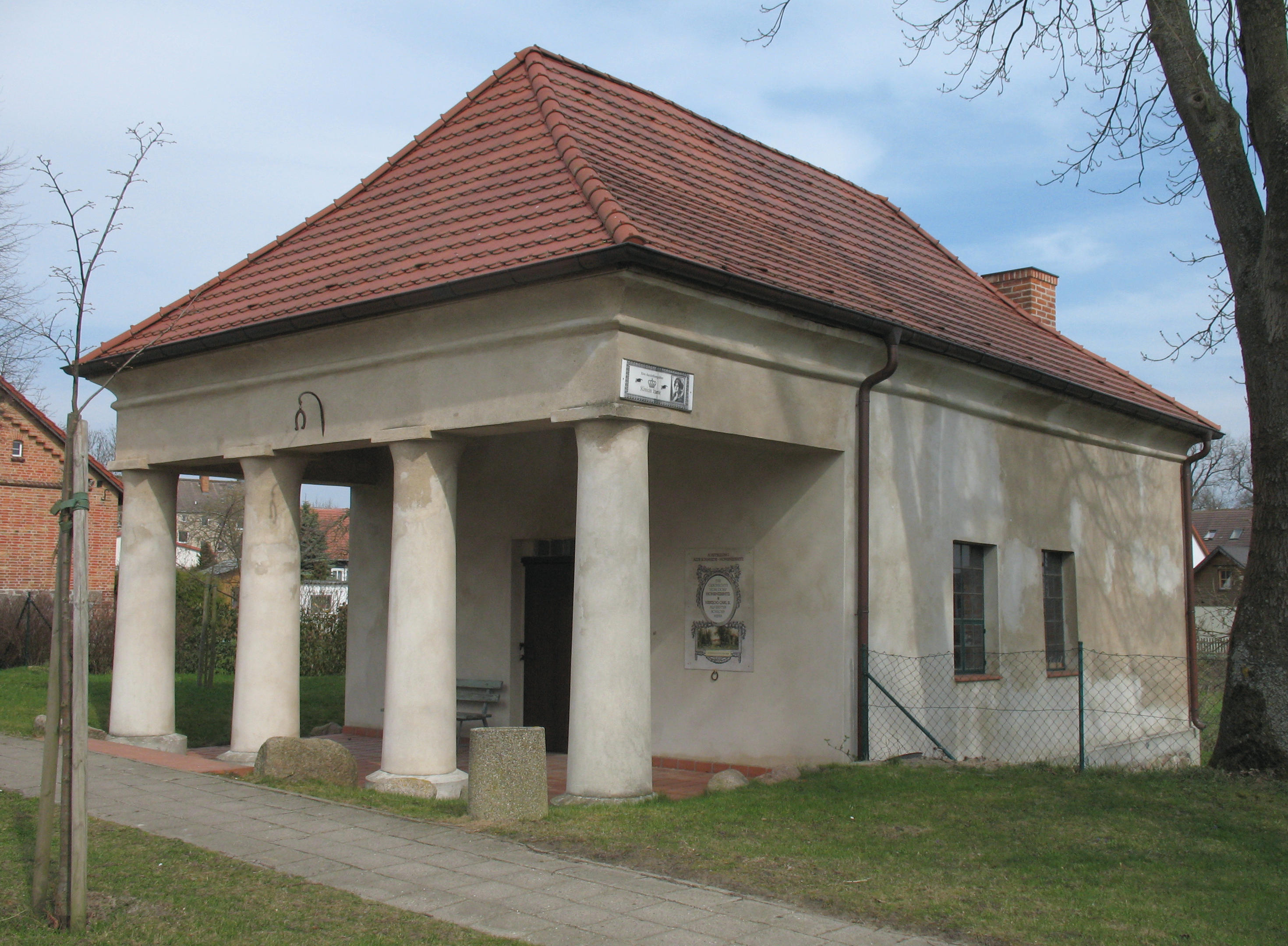 Former forge in Hohenzieritz in Mecklenburg-Western Pomerania, Germany